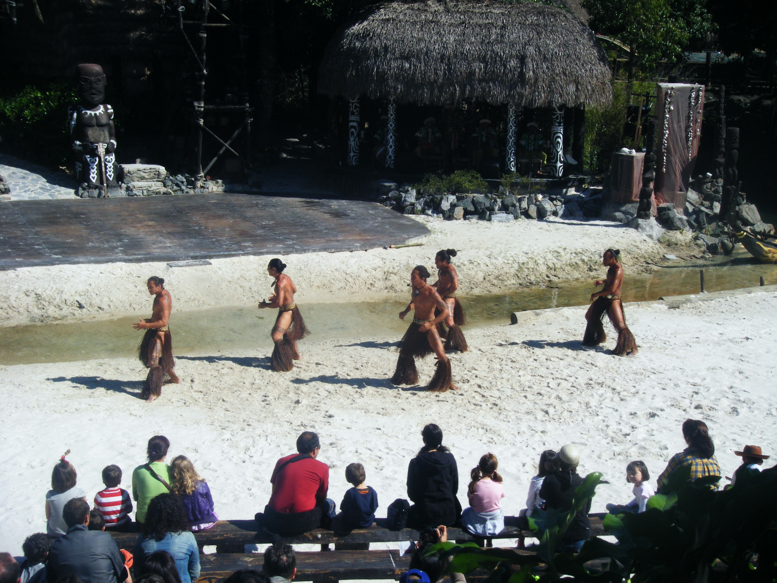 The Polynesian Dance at Port Aventura, Salou, Spain